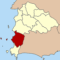 Map of Chonburi province, Thailand, highlighting Amphoe Bang Lamung (geocode 2004)